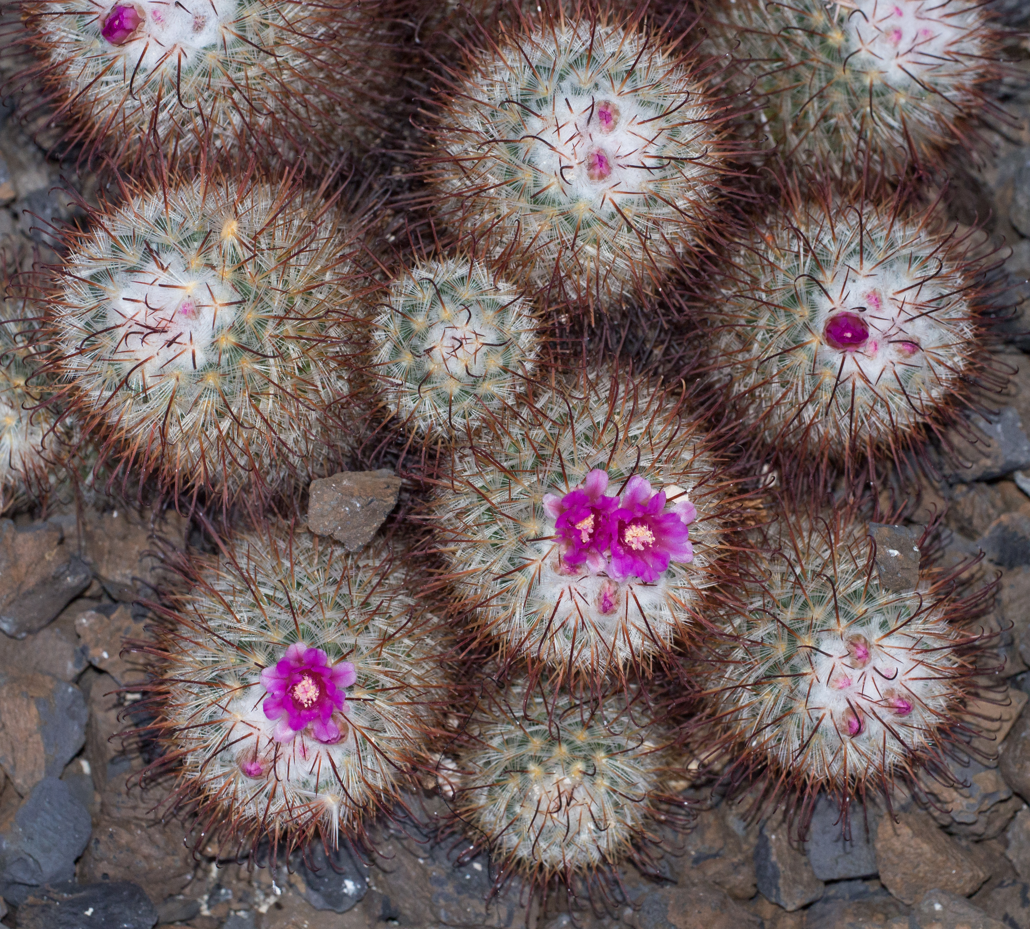 Silken pincushion cactus (Mammillaria bombycina) at the New York Botanical Garden.